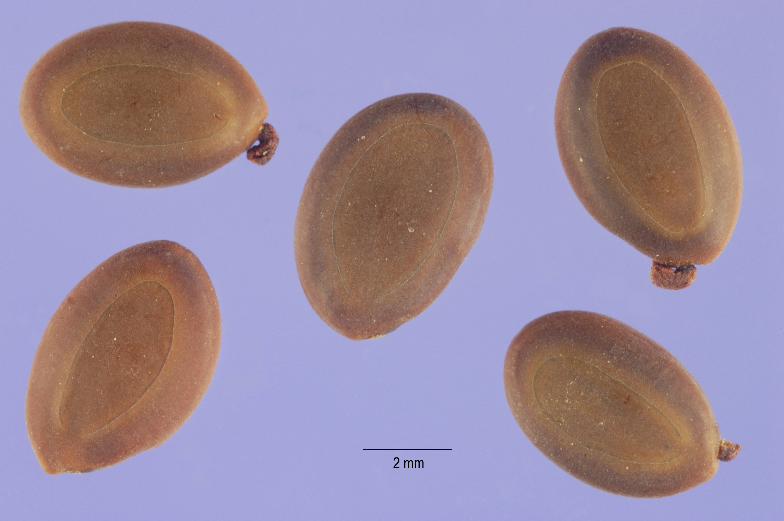 Small Philippine Acacia, Formosa Koa. Seeds. China.